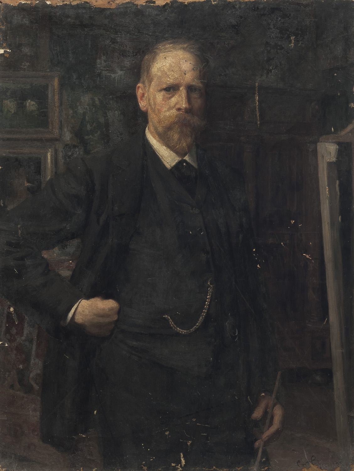 Karl Rudolf Sohn self-portrait (1894) in his studio